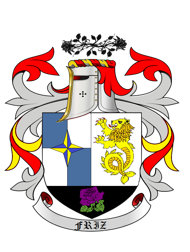 Friz coat of arms, family crest